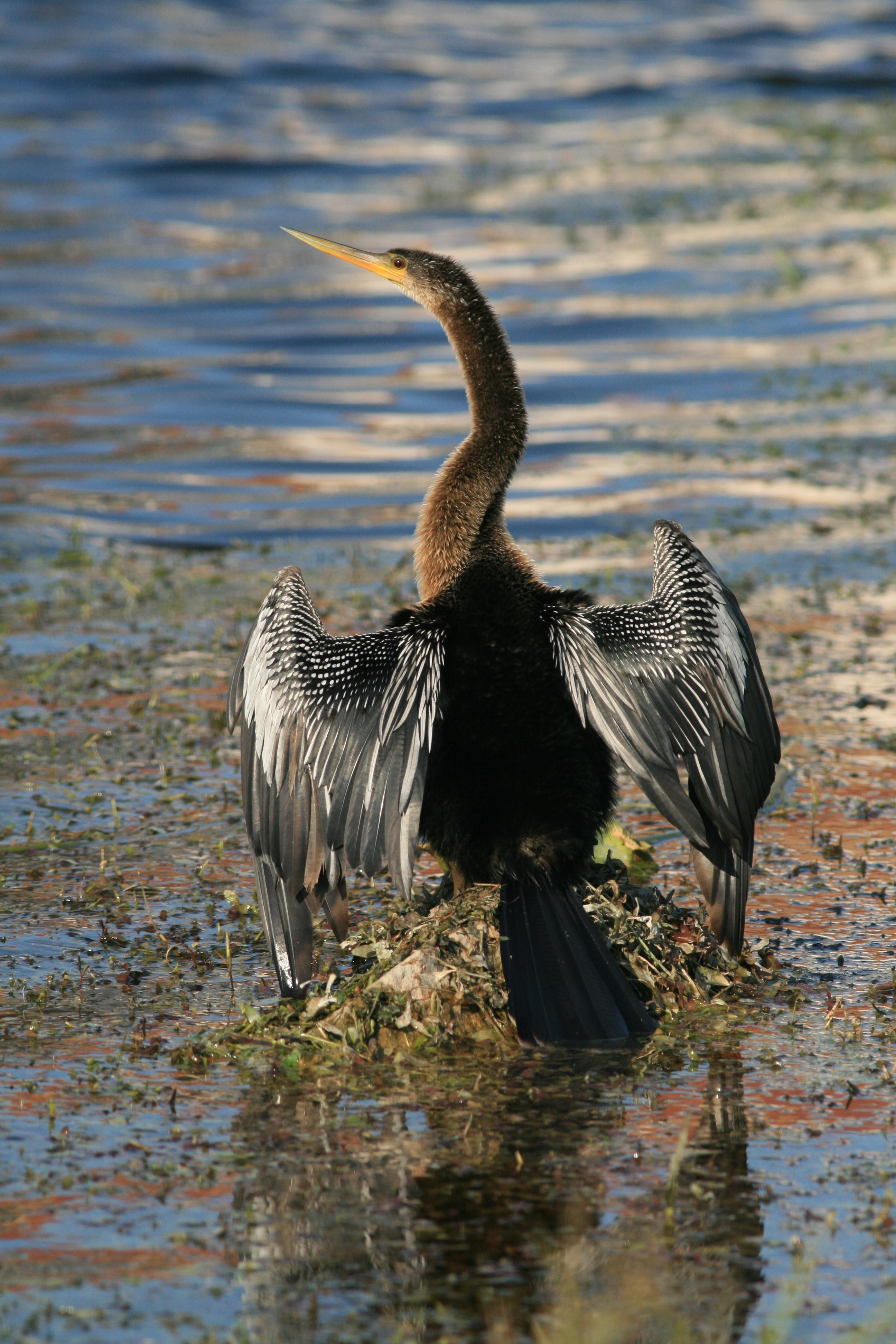 Anhinga anhinga dryings its feathers in the sun. Tradewinds Park, coconut Creek, Florida.